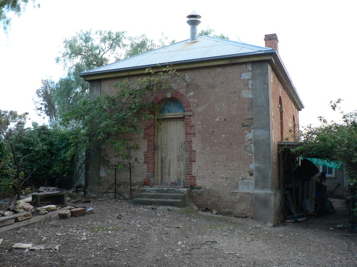 The old Bible Christian Chapel (and Schoolhouse) at Undalya (now a private residence).